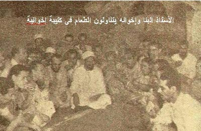 صورة حسن البنا وهو يتناول الطعام مع إخوانه في كتيبة إخوانية